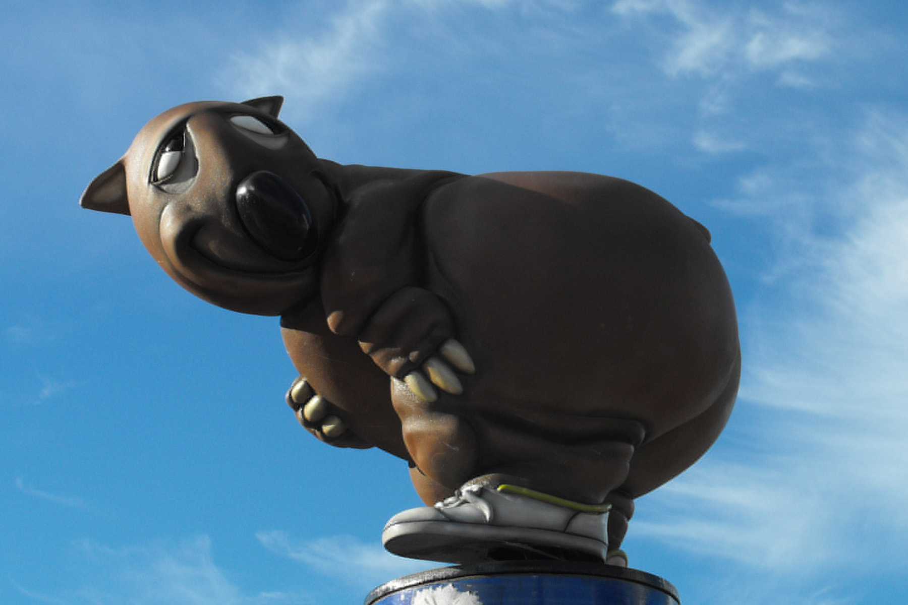 Sculpture of the unofficial 'mascot' of the 2000 Olympic Games, Fatso the Fat-Arsed Wombat. The sculpture is located at Olympic Park, atop one of the series of poles listing the volunteers who worked at the Games